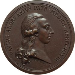 Paolo Andrean (1763 - 1823), Aeronaut Celebratory Medal = Andreani on one side and his balloon on the other